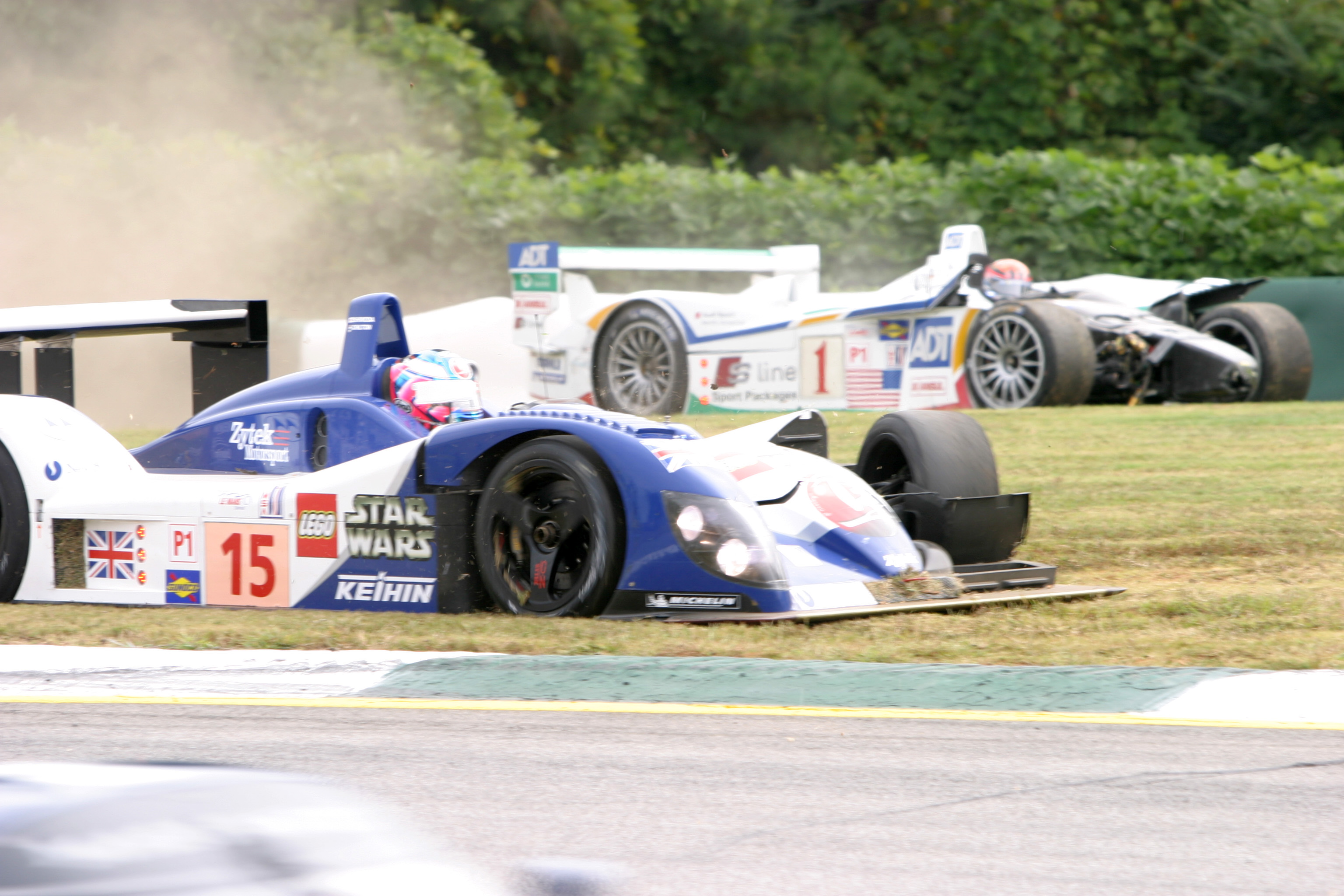 Crash at turn one on lap one of a 1,000 mile race